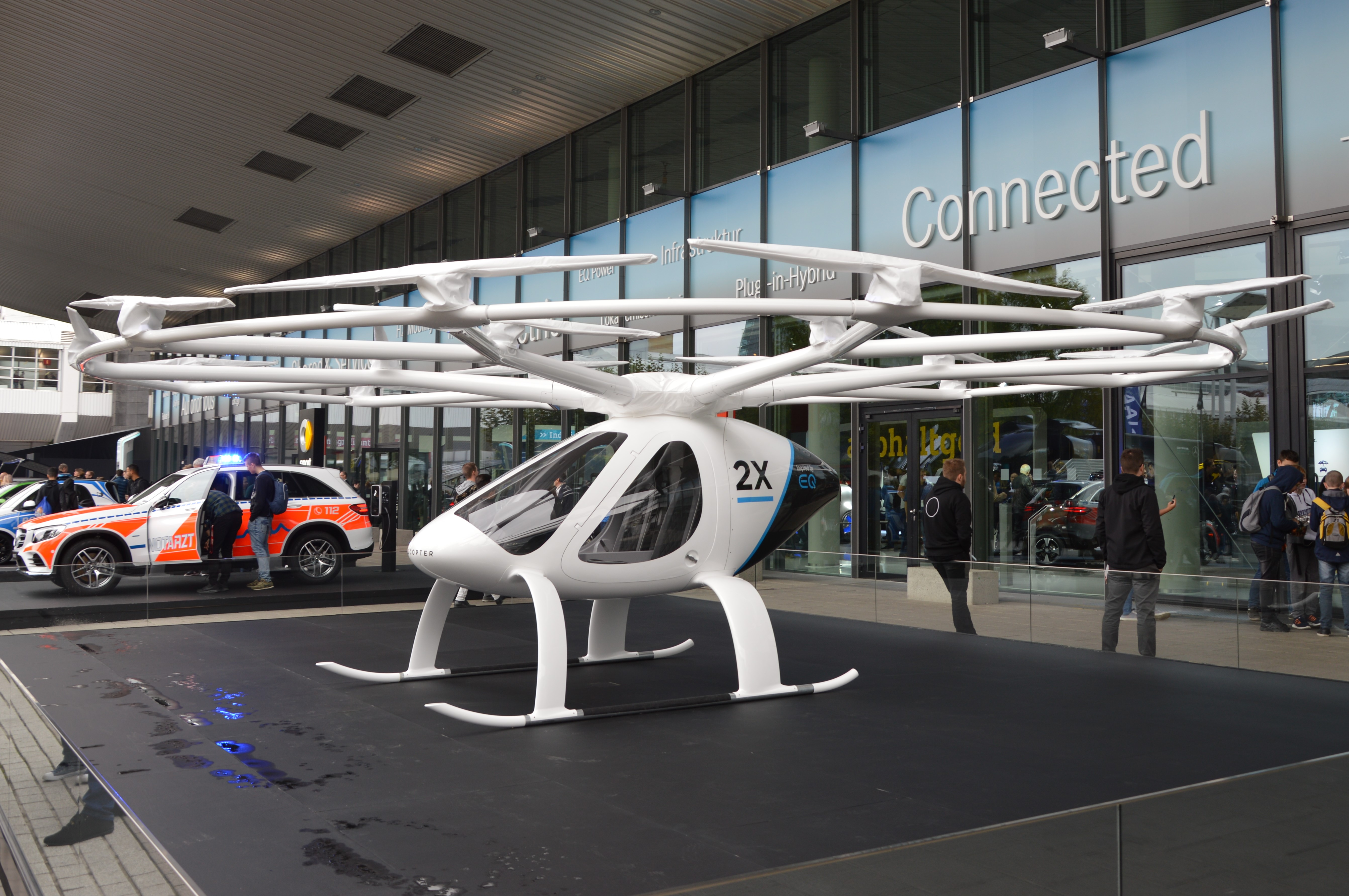 Volocopter 2X at IAA 2017. Electric ultralight VTOL (vertical take-off and landing) rotary wing aircraft. Certification as "light sport multicopter". In the background: a rapid response vehicle with blue LED lightbar; the blue light reflects in puddles of water. Photo cropped but no further processing yet.